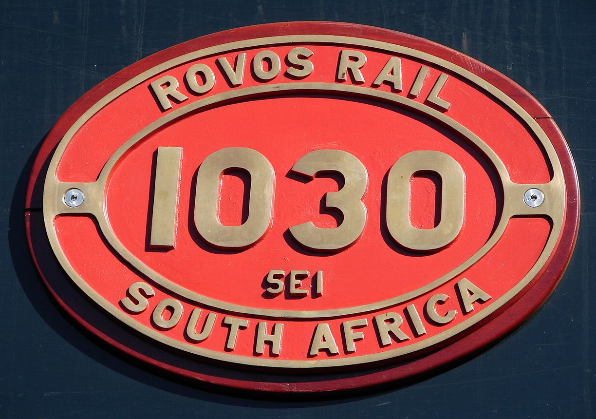 Number plate on Rovos Rail’s ex SAR Class 5E1 Series 5 E1030Location: Capital Park, Pretoria, Gauteng